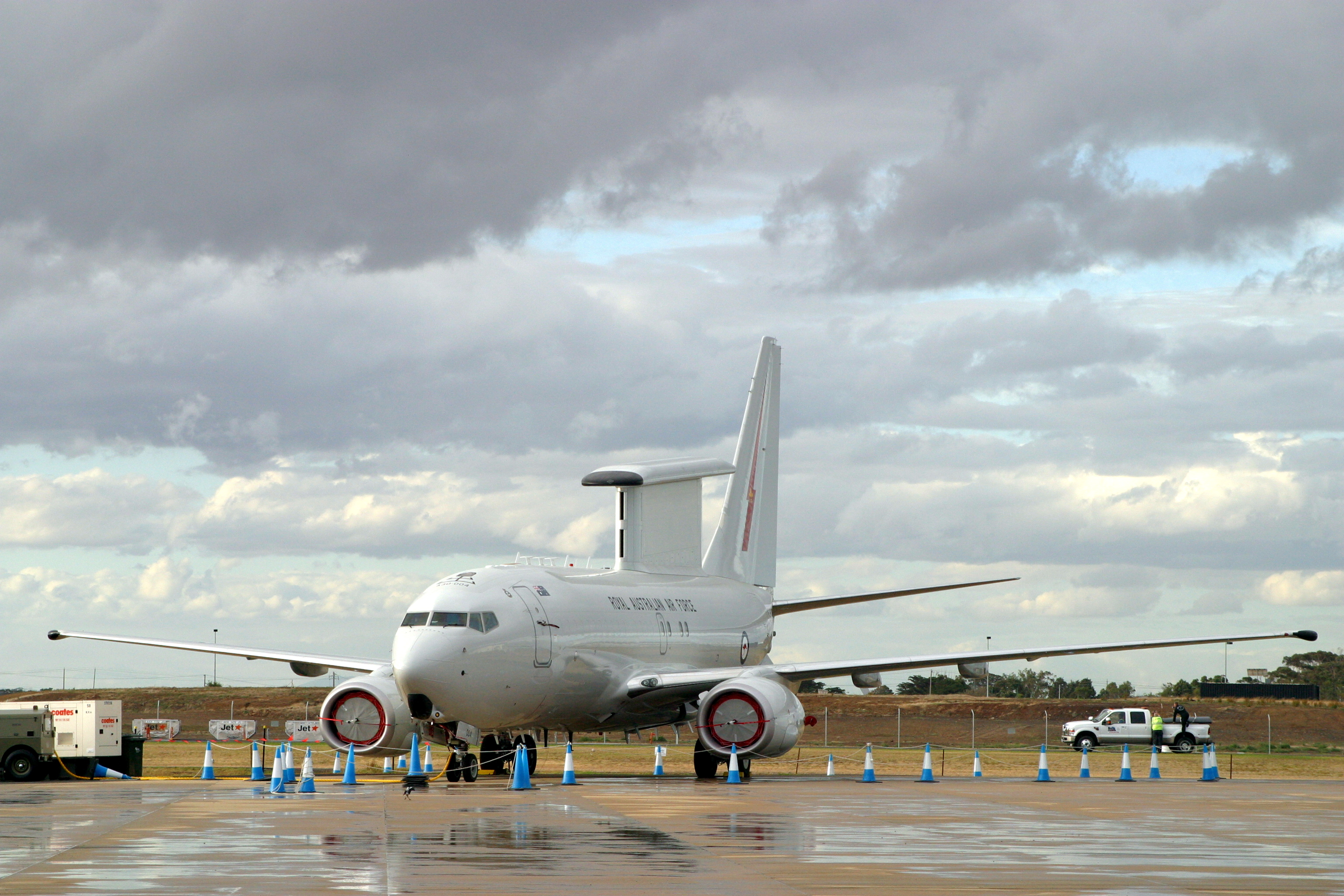 Boeing 737 AEW&C